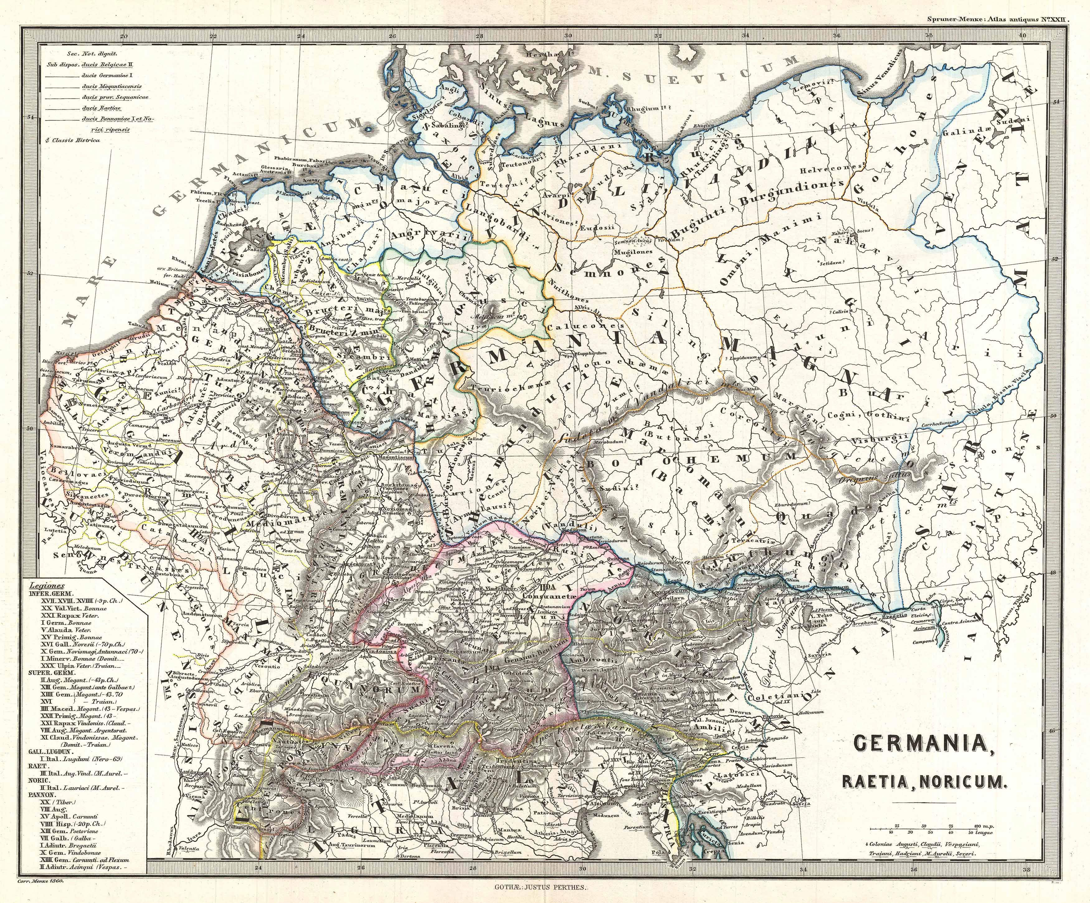 A particularly interesting map, this is Karl von Spruner’s 1865 rendering of Germany (or Germania) in antiquity. Like most of Spruner’s work this example overlays ancient political geographies on relatively contemporary physical geographies, thus identifying the sites of forgotten towns and villages, the movements of armies, and the disposition of lands in the region. This particular map focuses on the regions of Germania Inferior (which was a pacified Roman Province) and the more troublesome Germania Magna (Greater Germany) which resisted all attempts at Roman rule. As a whole the map labels important cities, rivers, mountain ranges and other minor topographical detail. Territories and countries outlined in color. All text is in Latin. The whole is rendered in finely engraved detail exhibiting the fine craftsmanship for which the Perthes firm is known. Of particular interest to classical scholars.